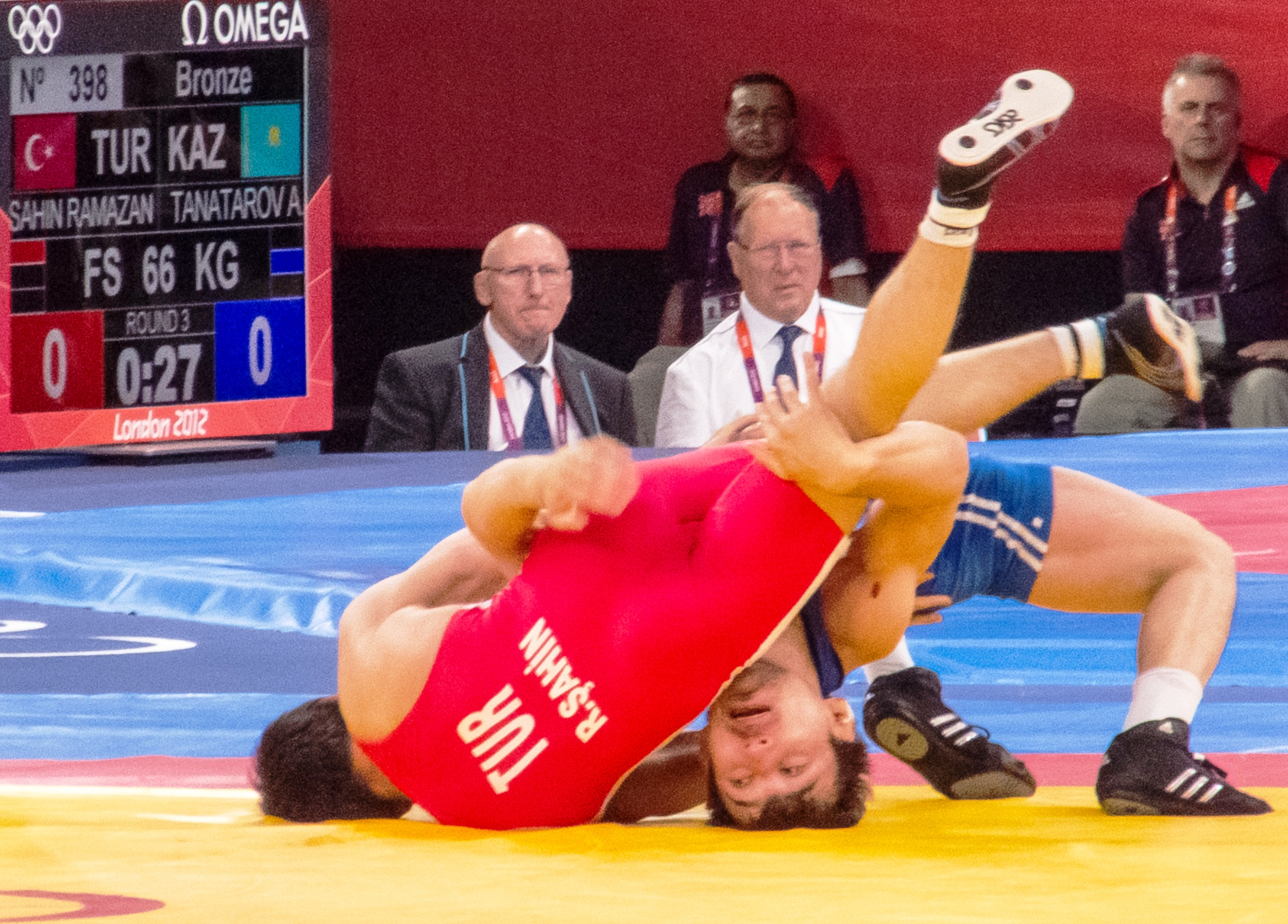 Akzhurek Tanatarov (in blue) vs. Ramazan Şahin at the 2012 Summer Olympics.